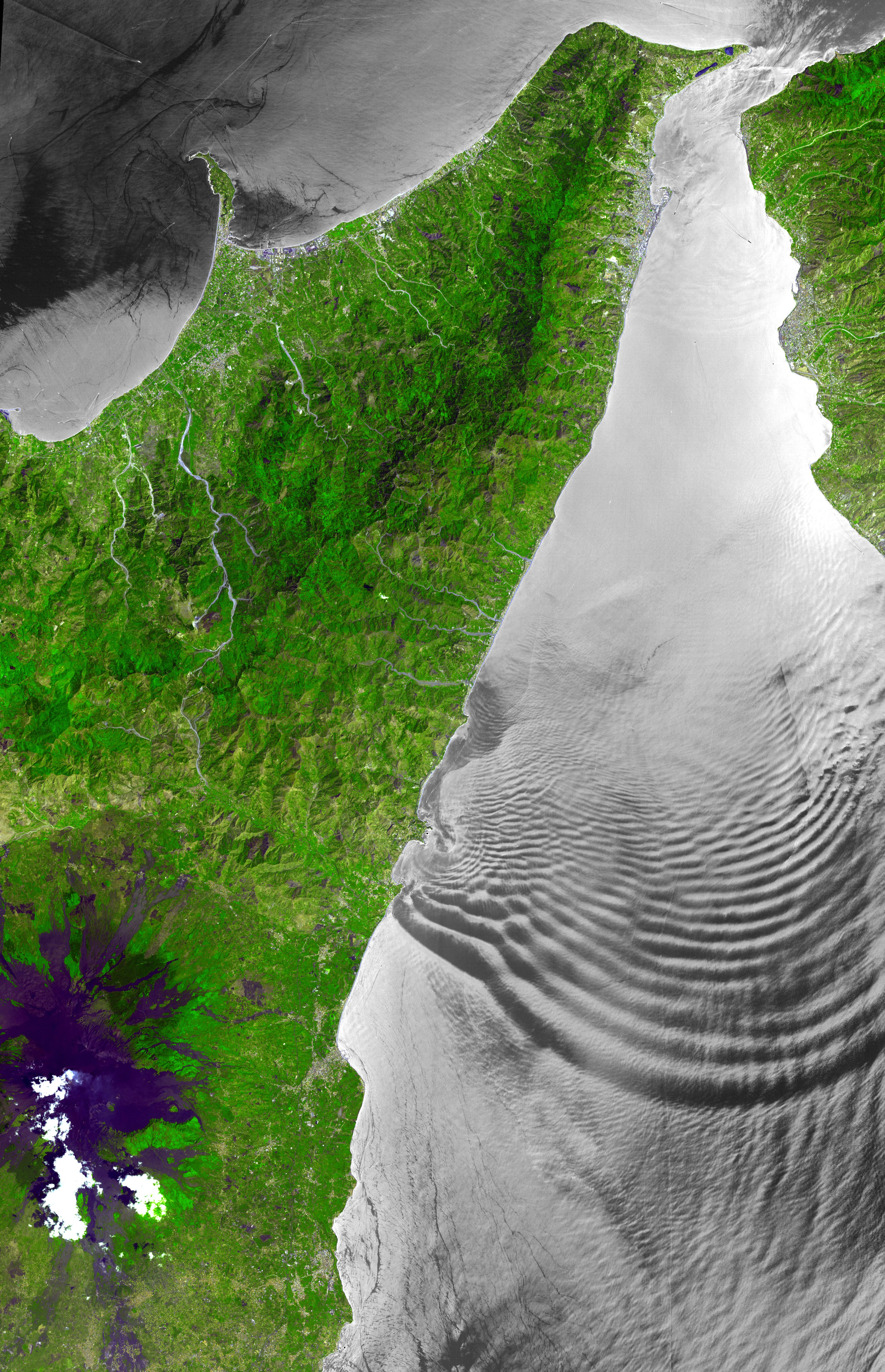 The Strait of Messina is a narrow channel separating the island of Sicily from the Italian peninsula, connecting the Ionian Sea with the Tyrrhenian Sea. In the Strait, strong tidal currents occur, which interact with the shallow sill located in its center. The mean depth of the Strait is only 80 m, compared to depths of over 800 m to the south. Internal wave trains of solitary waves can be generated, and these show up as sea surface manifestations because they are associated with variable surface currents that modify the surface roughness. ASTER sees these as dark (smooth) and light (rough) patterns when the solar illumination is at the correct angle relative to the orientation of the satellite. The ASTER images were acquired August 11, 2003, cover an area of 58 x 90 km, and are centered near 37.9 degrees north latitude, 15.3 degrees east longitude.